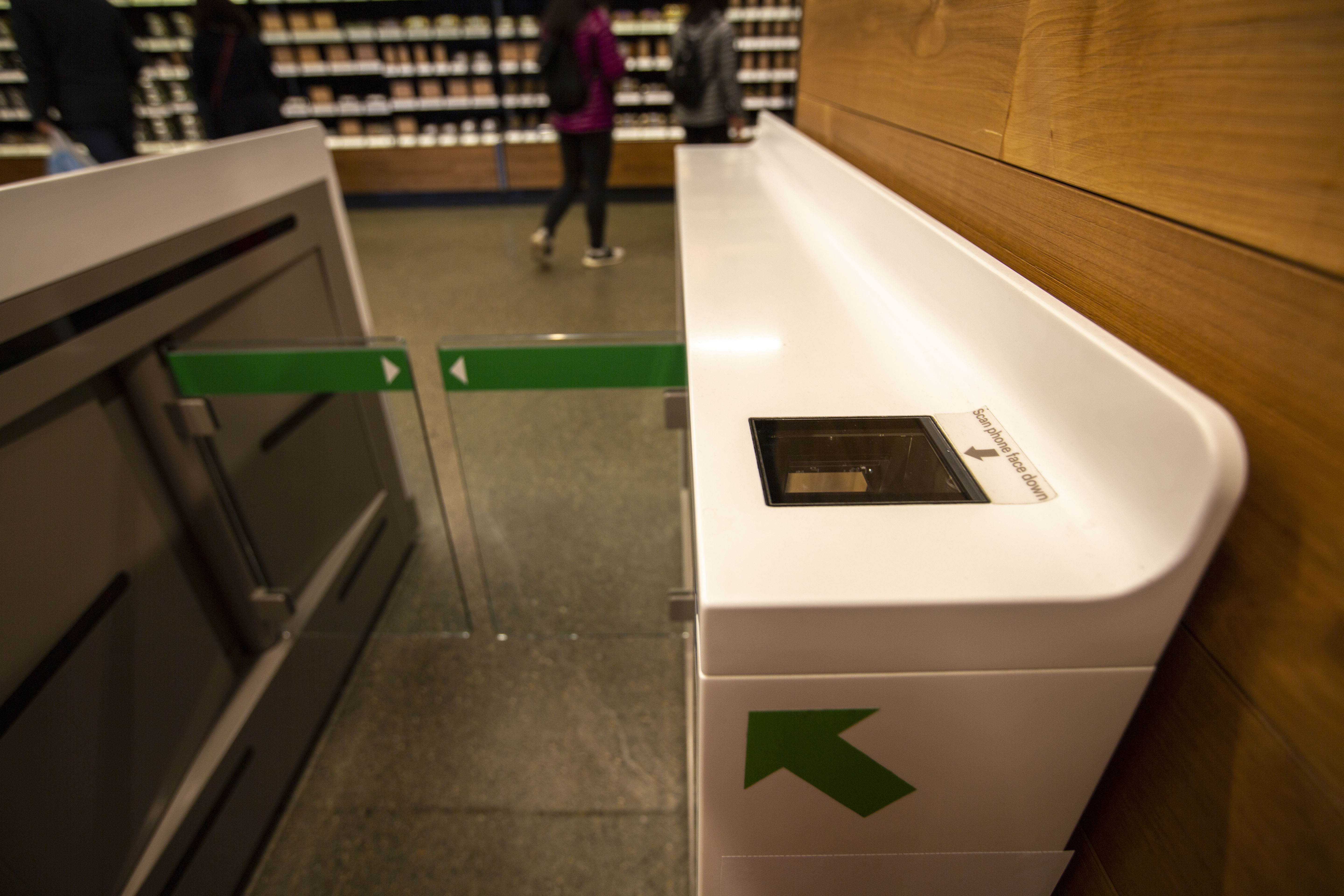 The first Amazon Go store, Downtown Seattle